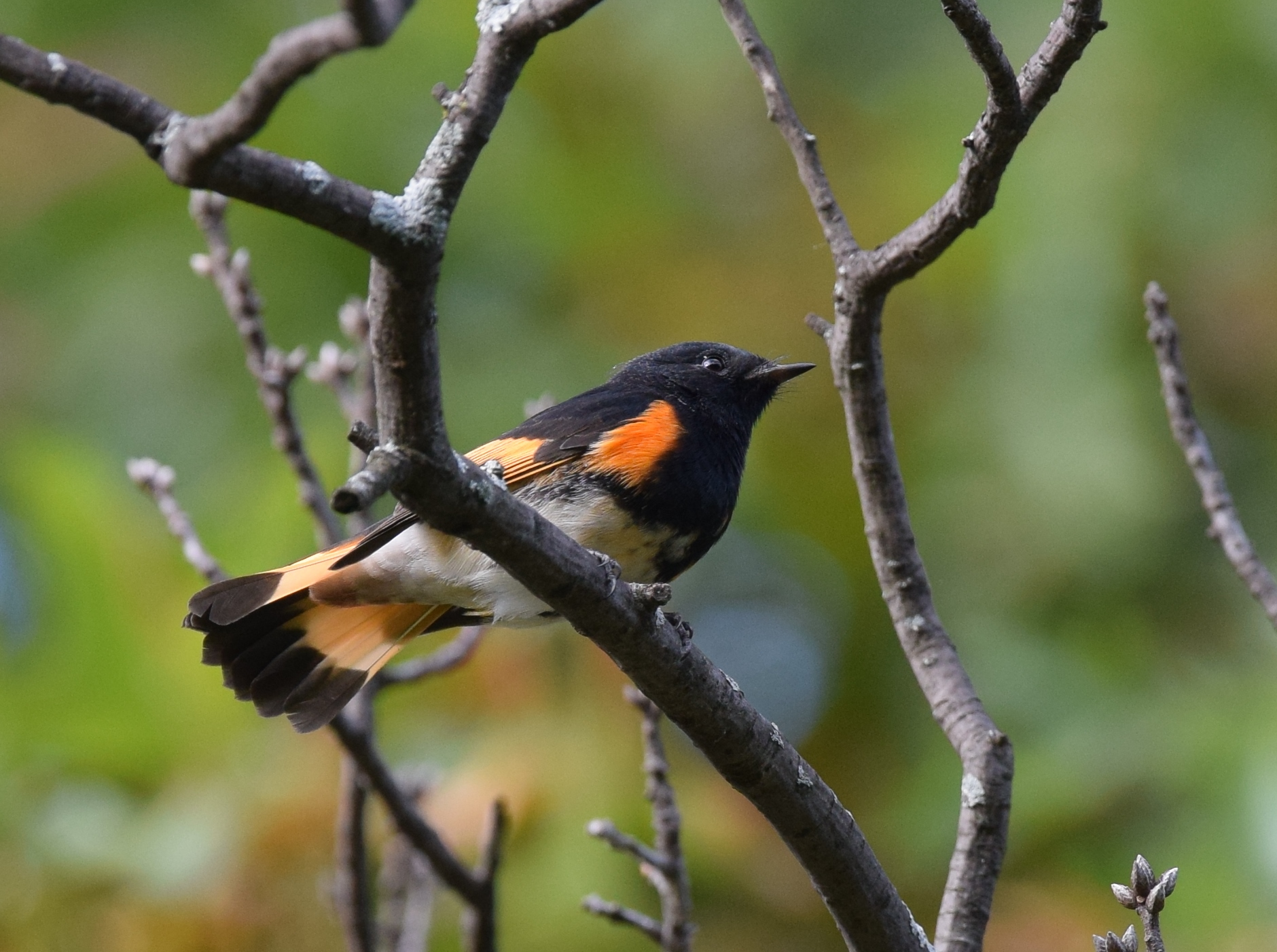 American Redstart